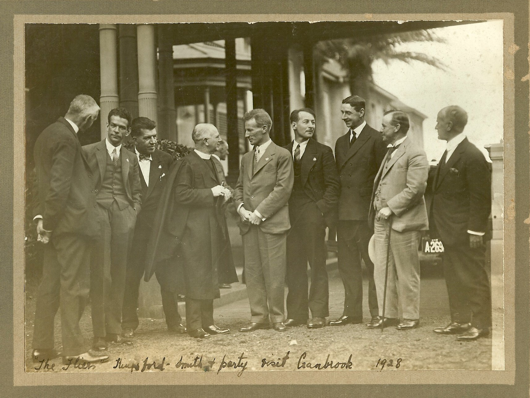 1928 Charles Kingsford Smith visits Cranbrook School